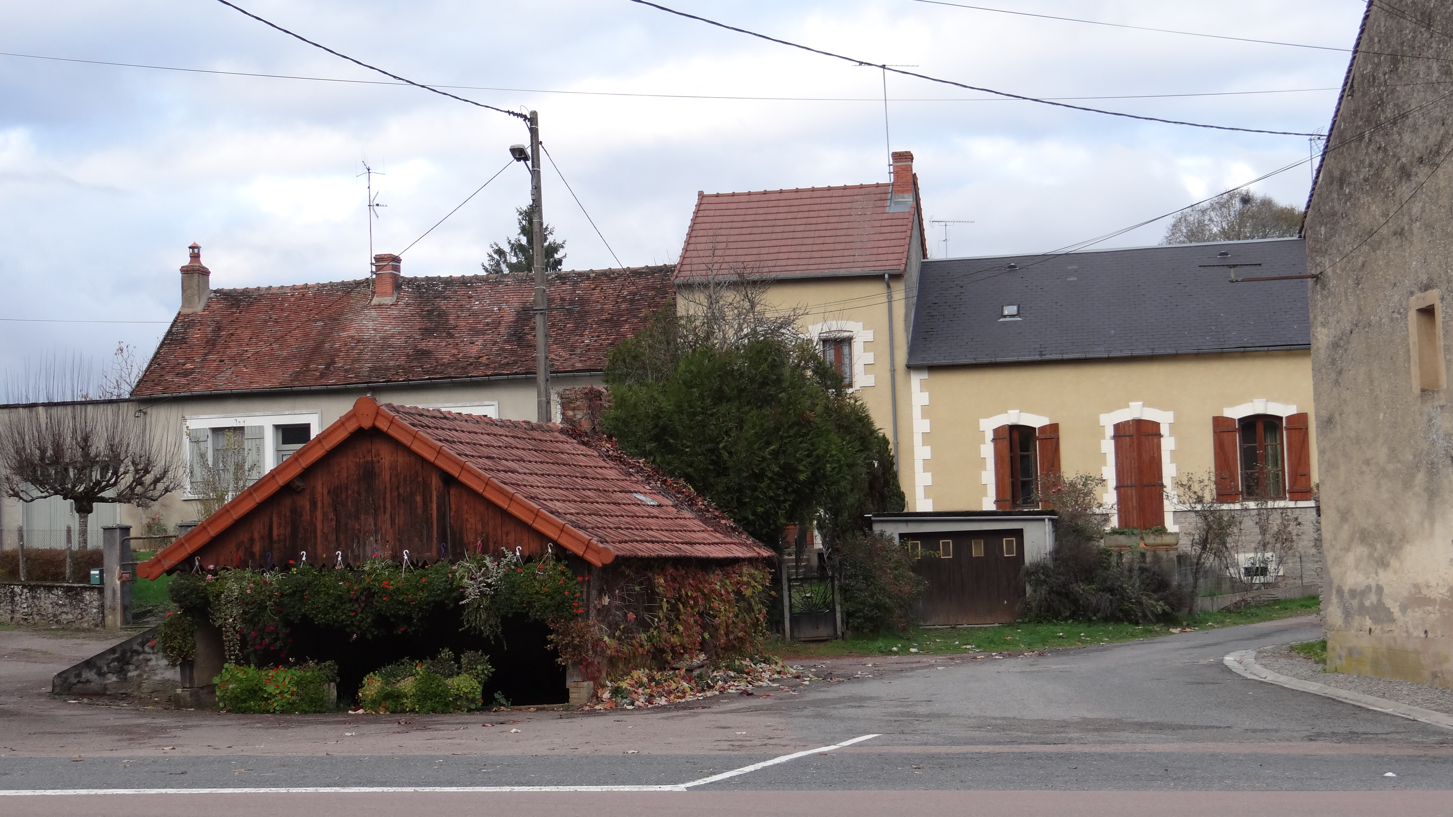 The village of Tamnay-en-Bazois, Nièvre, France The old wash house